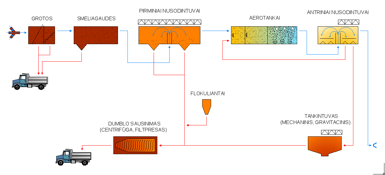 Typical wastewater treatment scheme